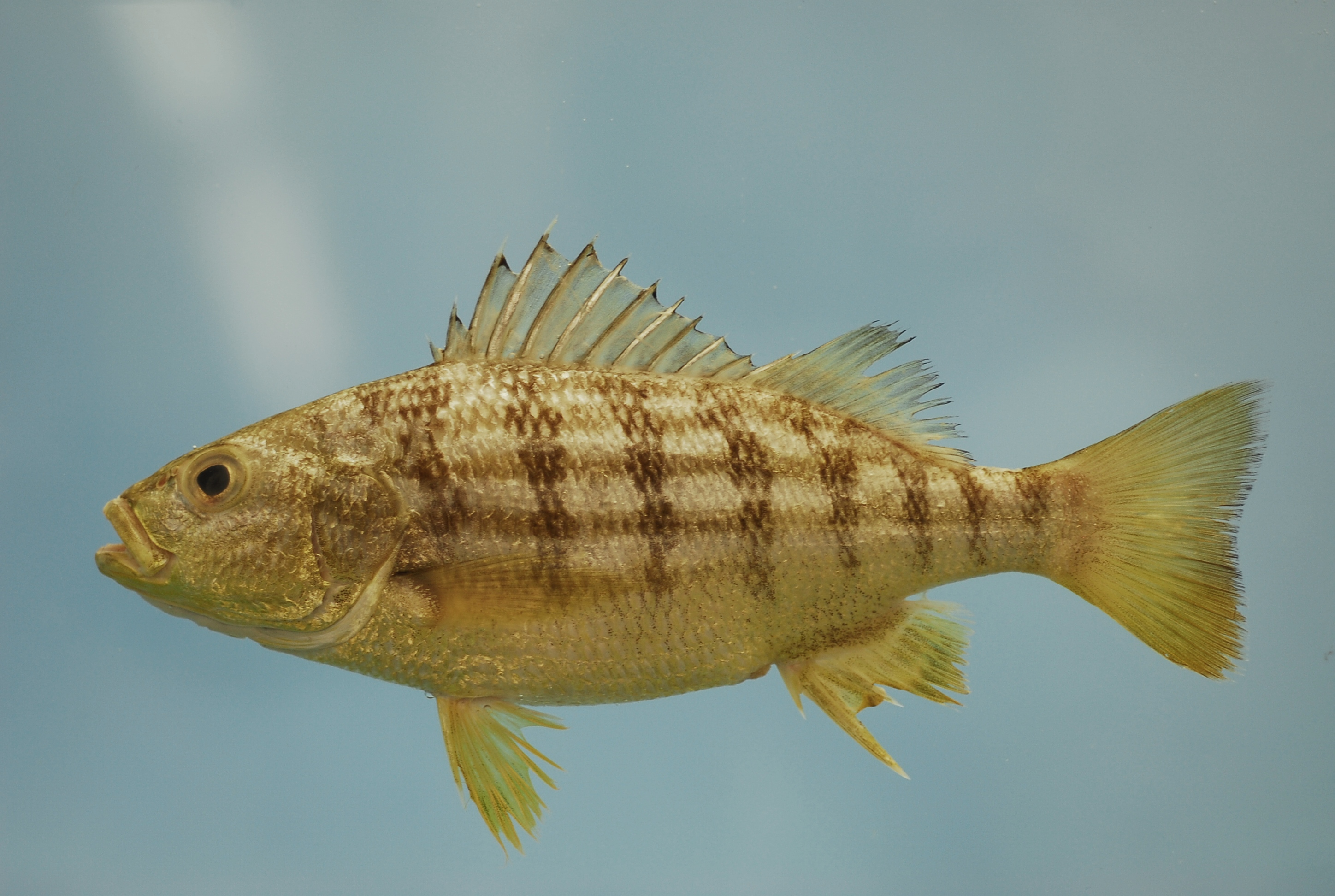 Conodon nobilis from the Gulf of Mexico